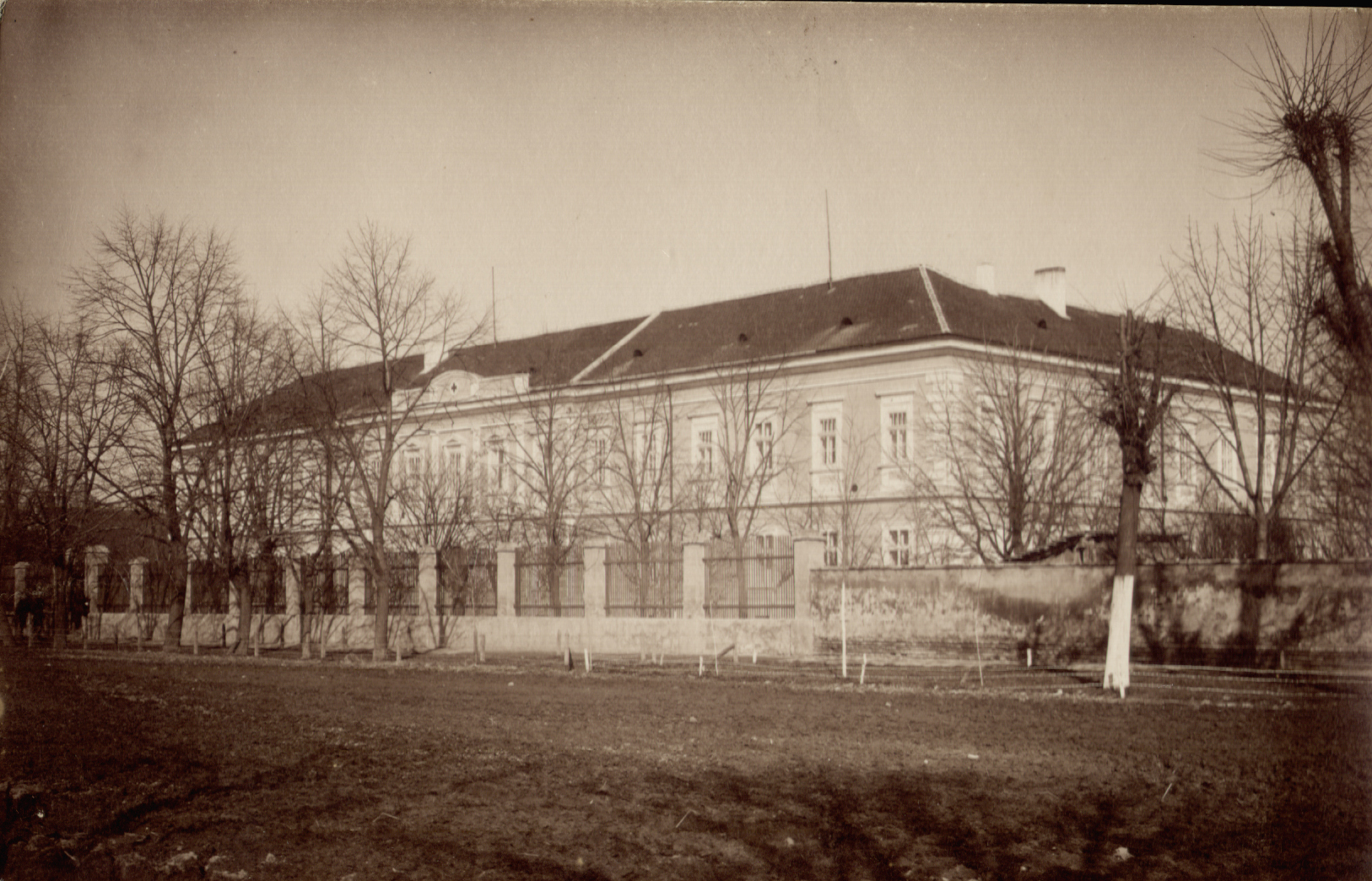 Russian hospital in Pancevo, today is in the building of the youth center